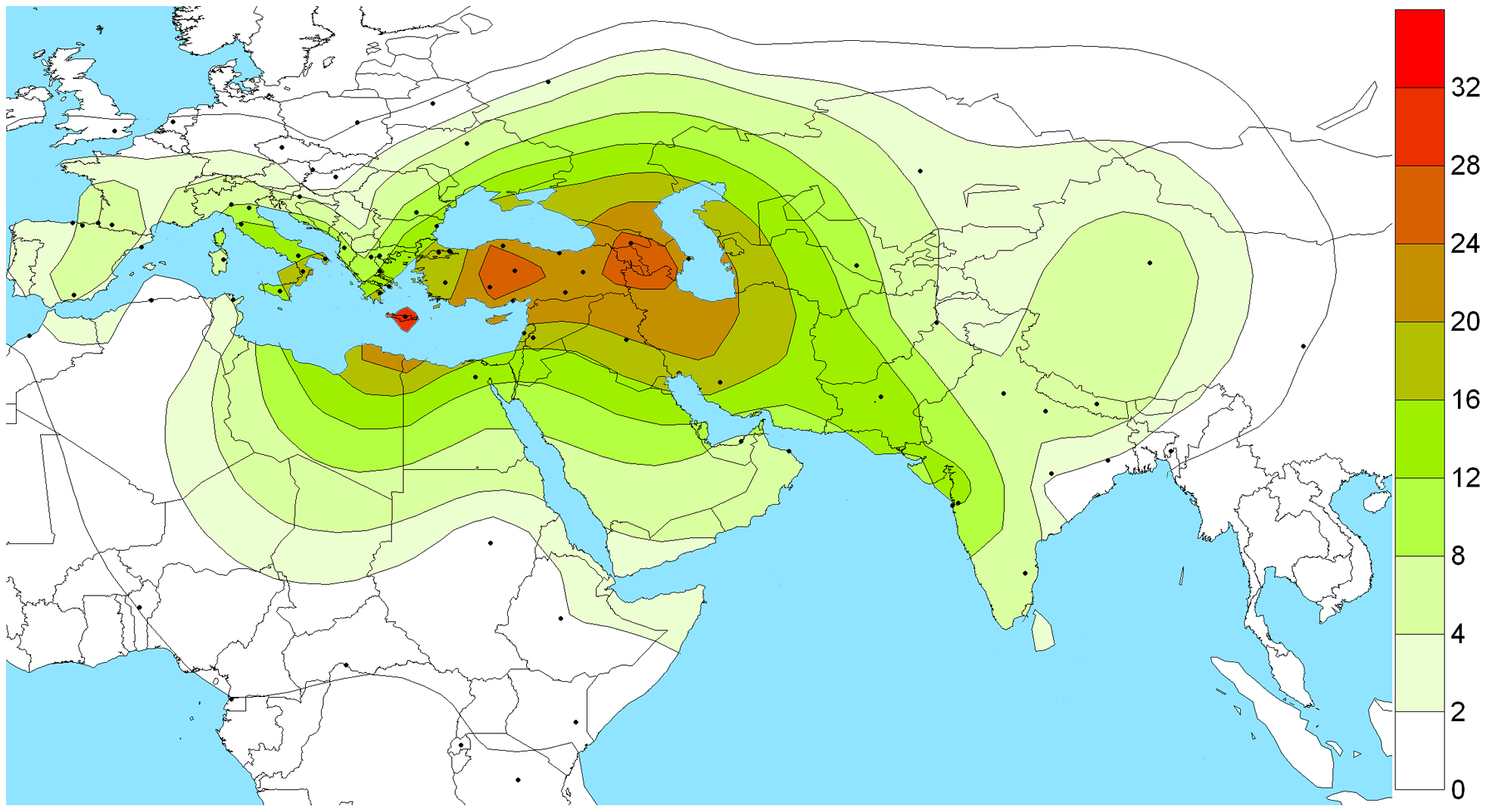 The spatial distribution (%) of Y chromosome haplogroup M410(J2a) clade in worldwide populations. Isofrequency maps were generated by using Surfer8 of Golden Software (Golden Software Inc., Golden, Colorado), following the Kriging procedure. Data is used from present study and previously published literatures. The dots represent sampling locations. The worldwide phylogeographic distribution of hg J2a suggests its entry in Indian subcontinent through northwestern corridor and an abrupt drop further south due to Western Ghat mountain ranges